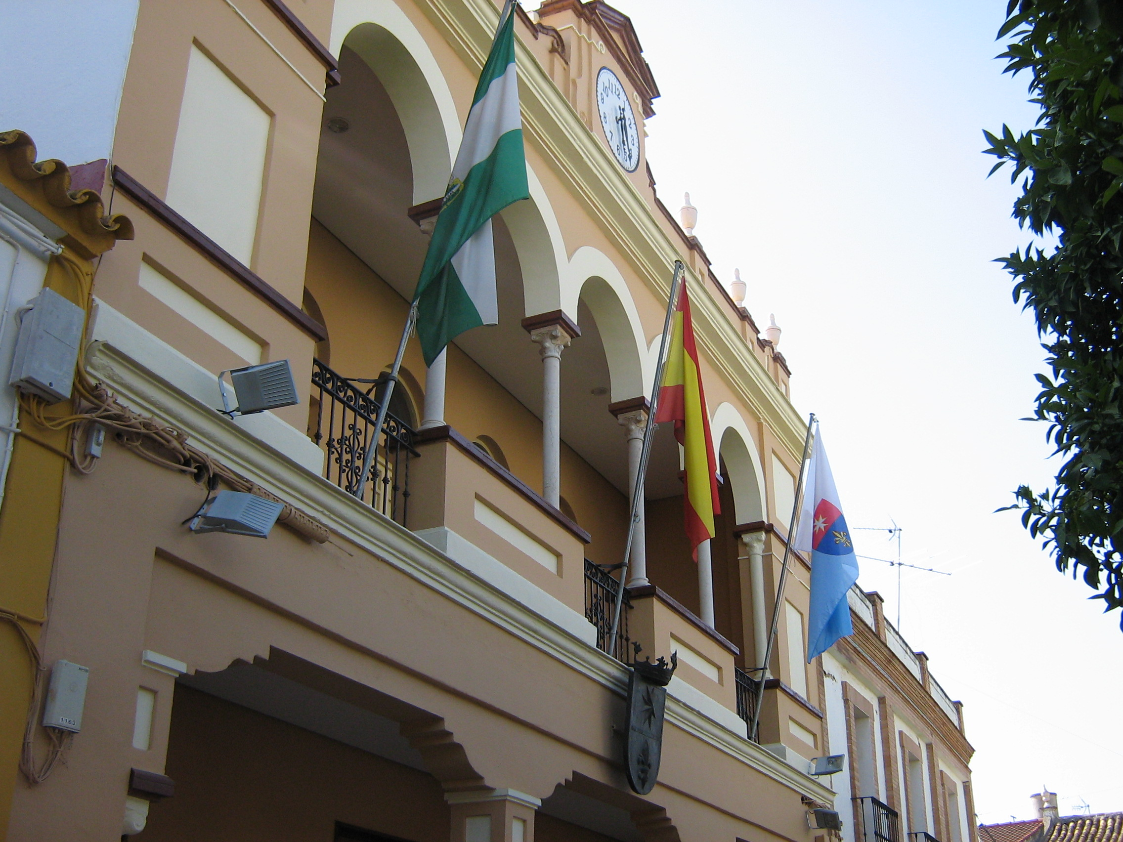 municipality of La Rinconada(seville)